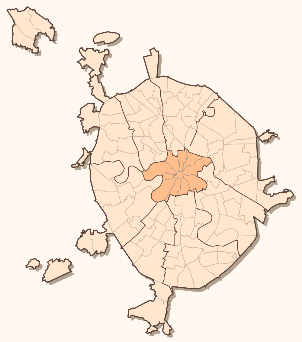 Moscow districts map